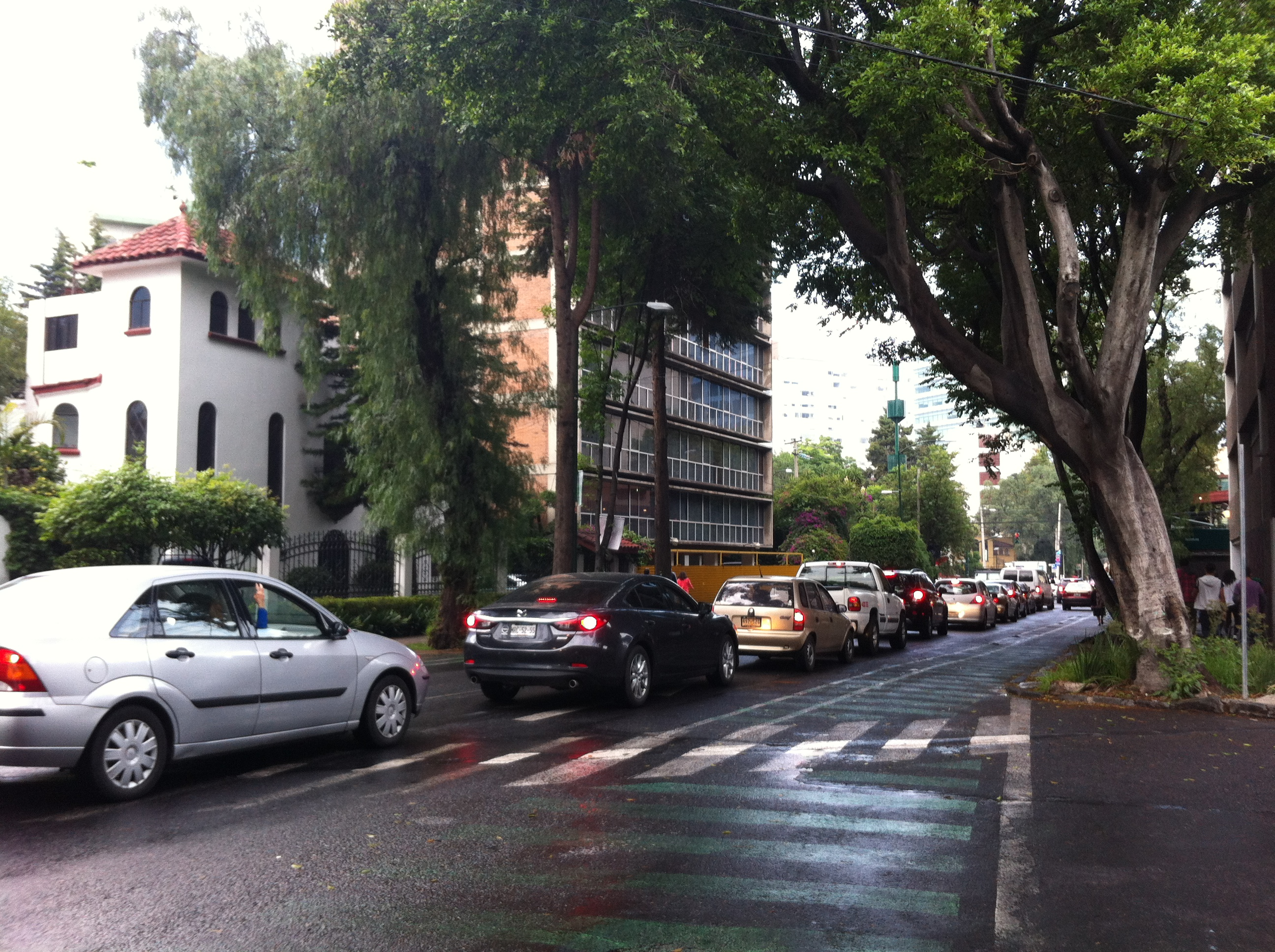 Dakota street shows some original Californian colonial style houses, it was one of the first streets with bicycle lane in Mexico City. Car saturation becomes very high in the evening, when office personal leaves.